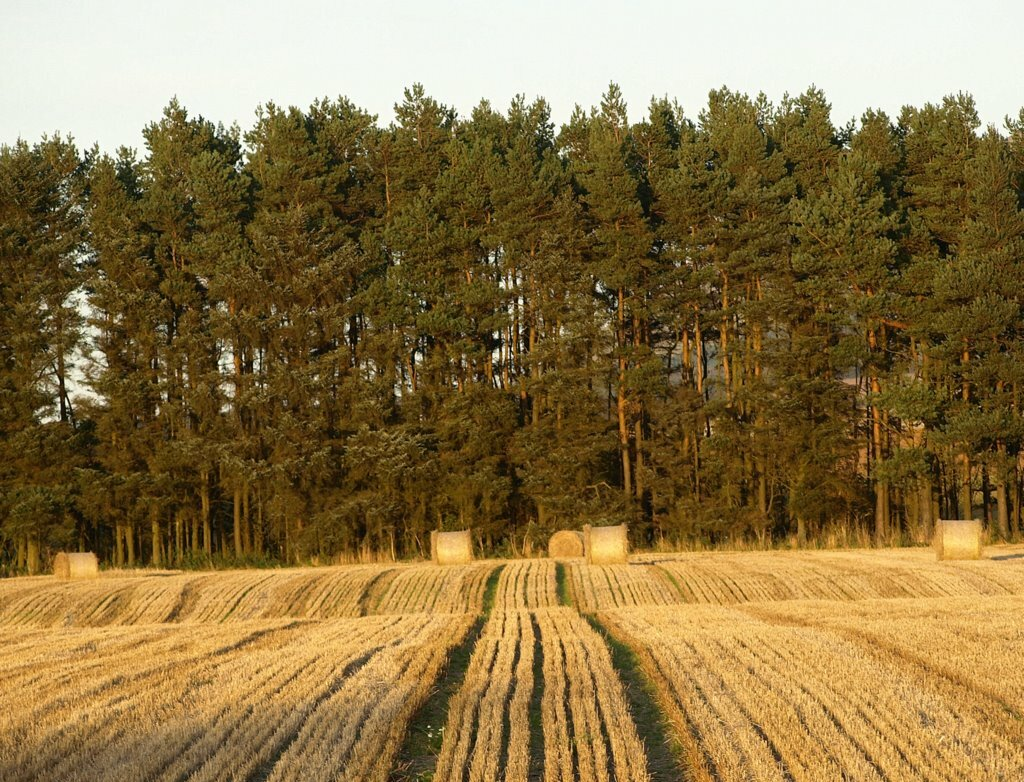 Stubble field with round straw bales in autumn. Sunset at Lethangie Farm, Kinross, Scotland, UK.